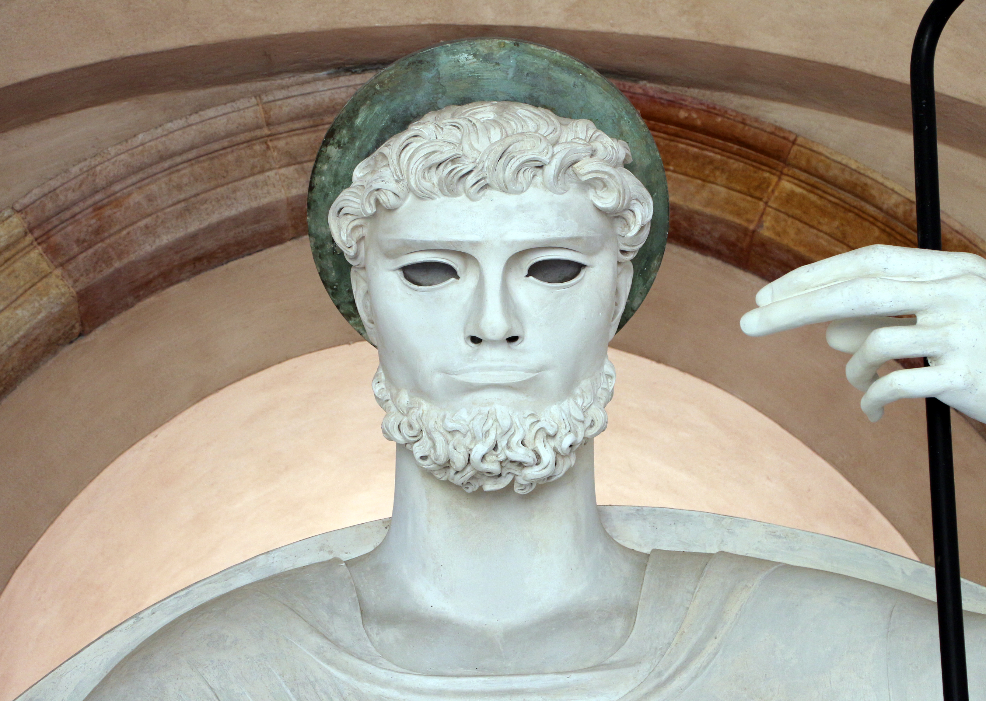 Università Statale (Milan)